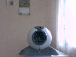 Logitech QuickCam Messenger V-UAS14 webcam. Self portrait. The image is actually a mirror reflection of the camera, since that same camera was used create it. This vintage of QuickCam Messenger lacks official driver support for Windows Vista (as of 11.2007).